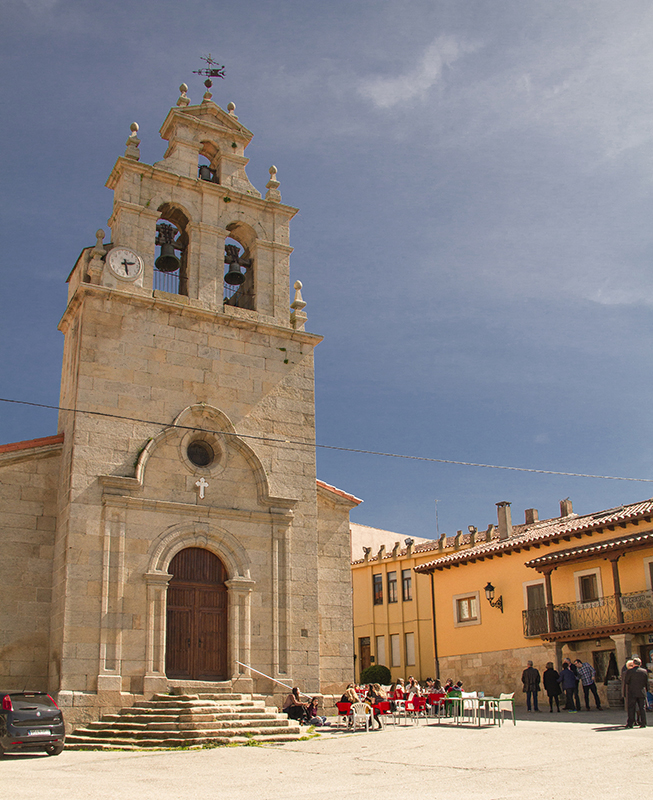 Church of San Sebastián, Mieza de la Ribera, in Castile and León, Spain.